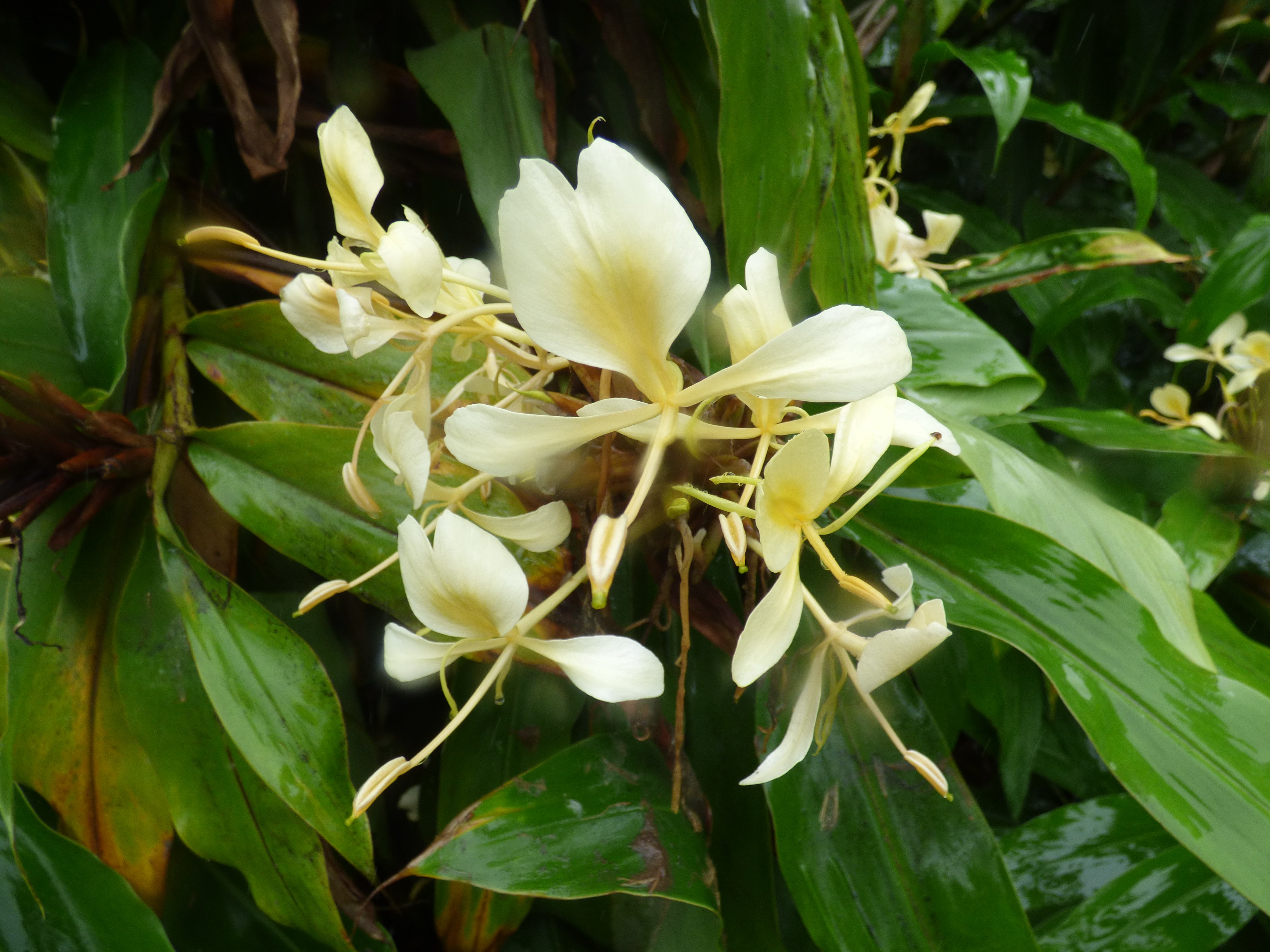 Hedychium flavescens (Yellow ginger) Flowers leaves at Lower Kula Pipeline Waikamoi, Maui, Hawaii. September 09, 2018 #180909-0891 Image Use Policy